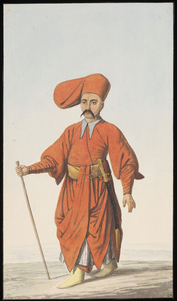 A bostancı ("gardener"), one of the Ottoman Sultan's personal guard